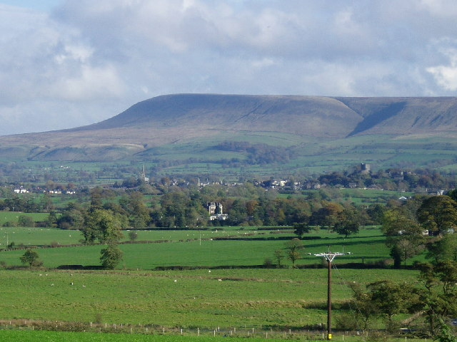 Pendle Hill and the Ribble Valley. From Bashall Barn across Clitheroe to Pendle Hill.